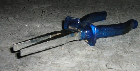 Collet